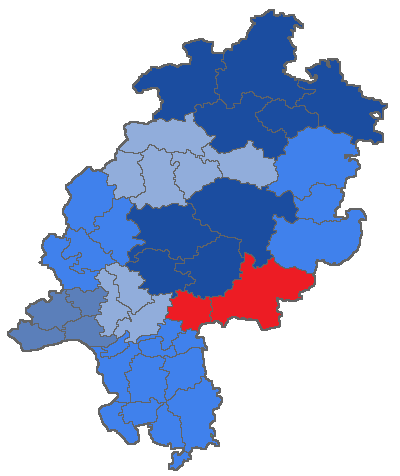 Map of the District Court Hanau